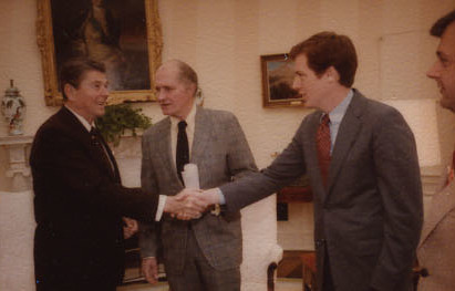 President Ronald Reagan, Ed Meese, Malcolm Baldrige, Robert Lighthizer, Dennis Whitfield, B. Jay Cooper, David Gergen, Craig Fuller meeting for a Cabinet Affairs Briefing